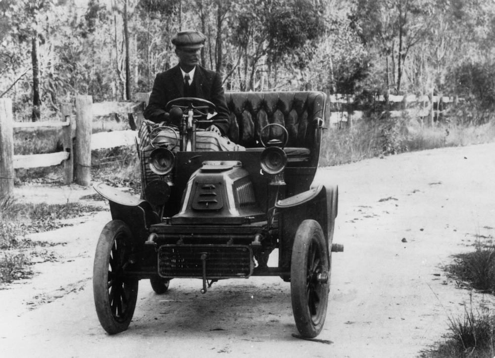 William Govett driving a De Dion Bouton "Populaire" on an unsealed road. William Govett wearing a jacket and cap with a blanket over his knees. He is driving a French De Dion Bouton ca. 1905 motor vehicle on an unsealed road. A post and rail fence is visible on the side of the road.